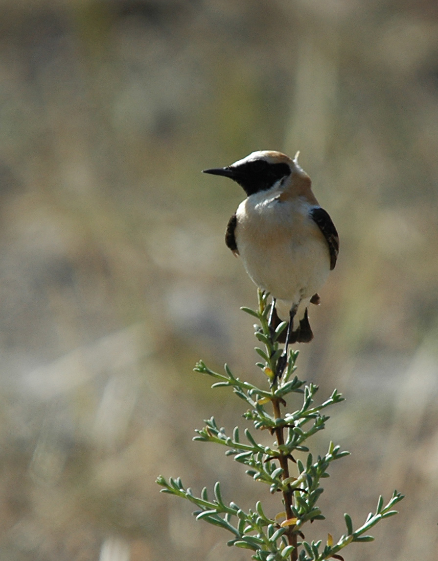 Black-eared Wheatear Oenanthe hispanica. Punta del Sabinar, Spain.